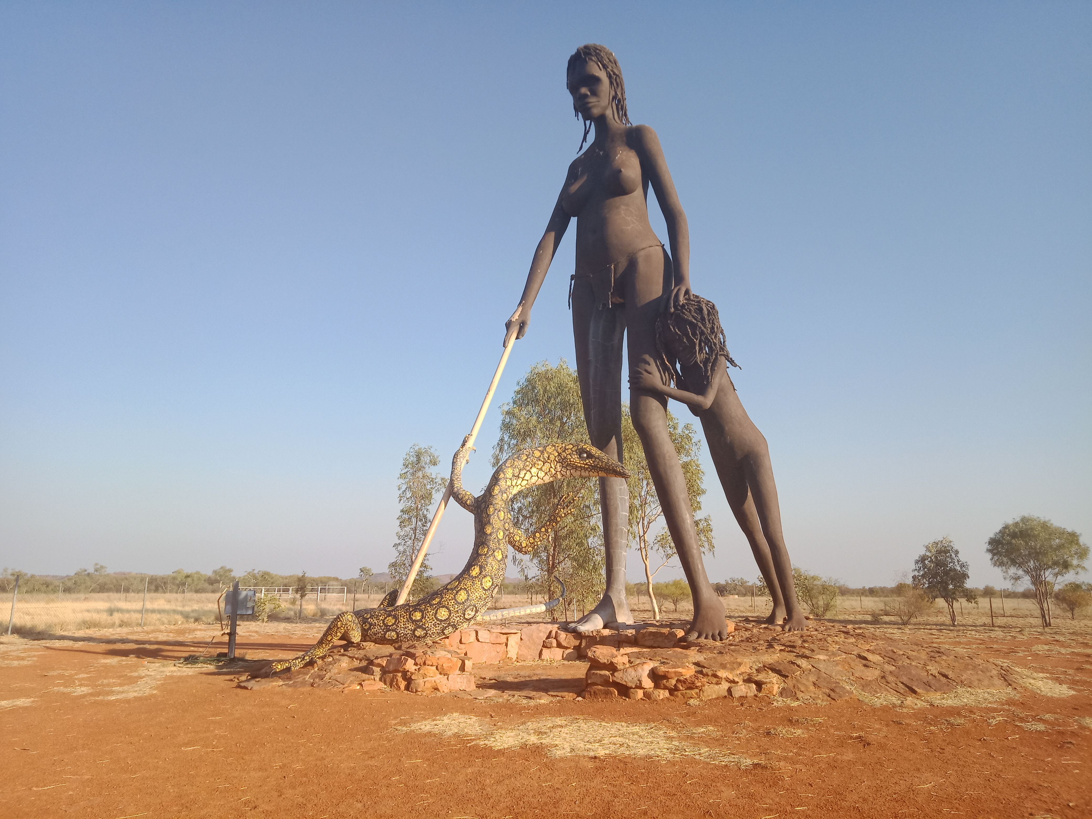 Novelty over-sized sculpture found at Aileron Roadhouse